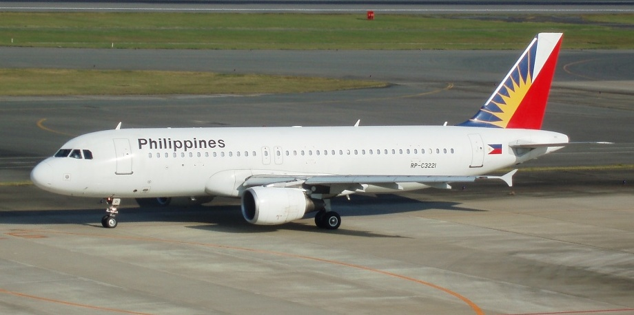 Philippine Airlines A320-200